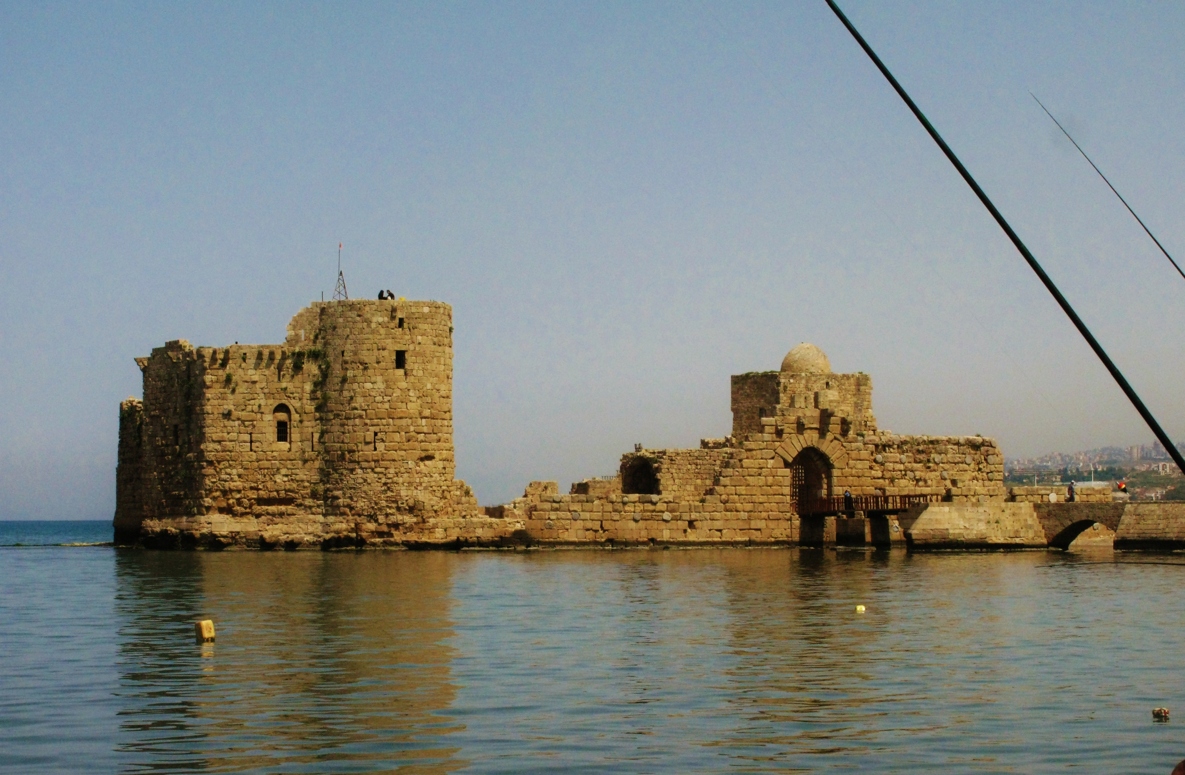 Sidon Sea Castle — of the Eyalet of Sidon, Ottoman Empire.